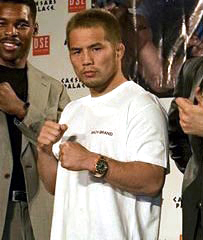 Hayato Sakurai at the official weigh-in of Pride 33, Thomas & Mack Center on February 23, 2007.